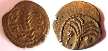 Coin of Coponius, the first governor ("Prefect") of Iudaea province, about 6 CE. Itamar Atzmon's collection.